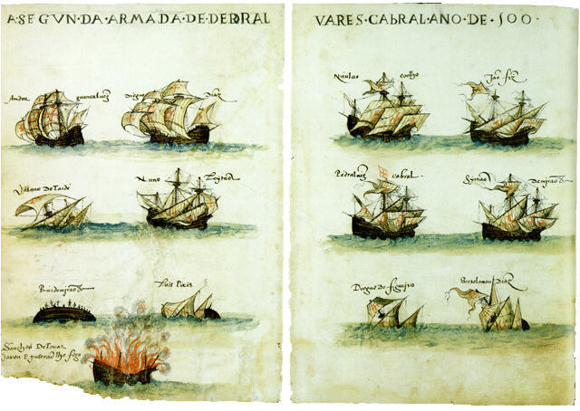 Depiction of the 2nd Portuguese India Armada (fleet of Pedro Alvares Cabral, 1500) from the Livro de Lisuarte de Abreu (held by Pierpont Morgan Library)